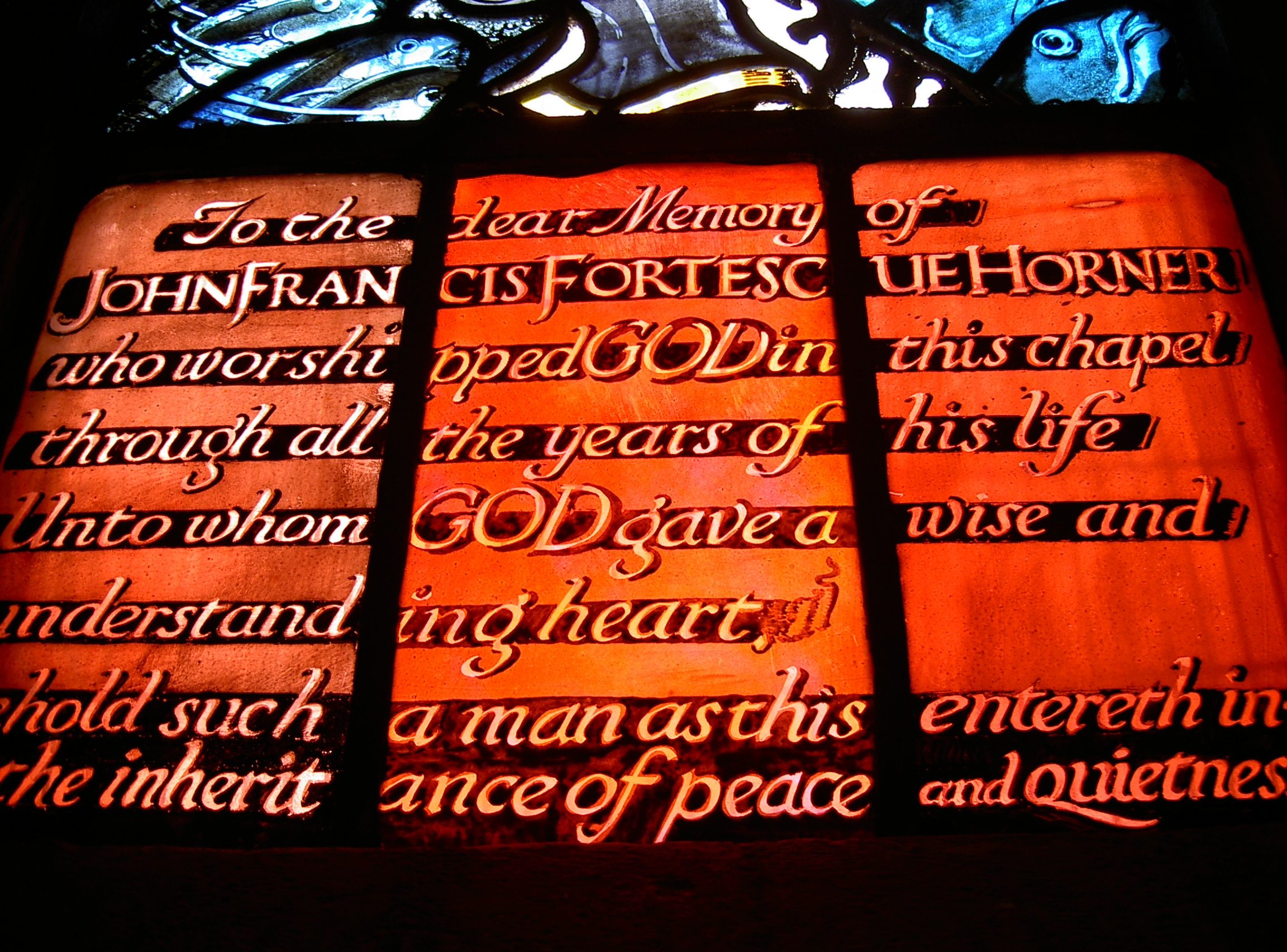 Red glass